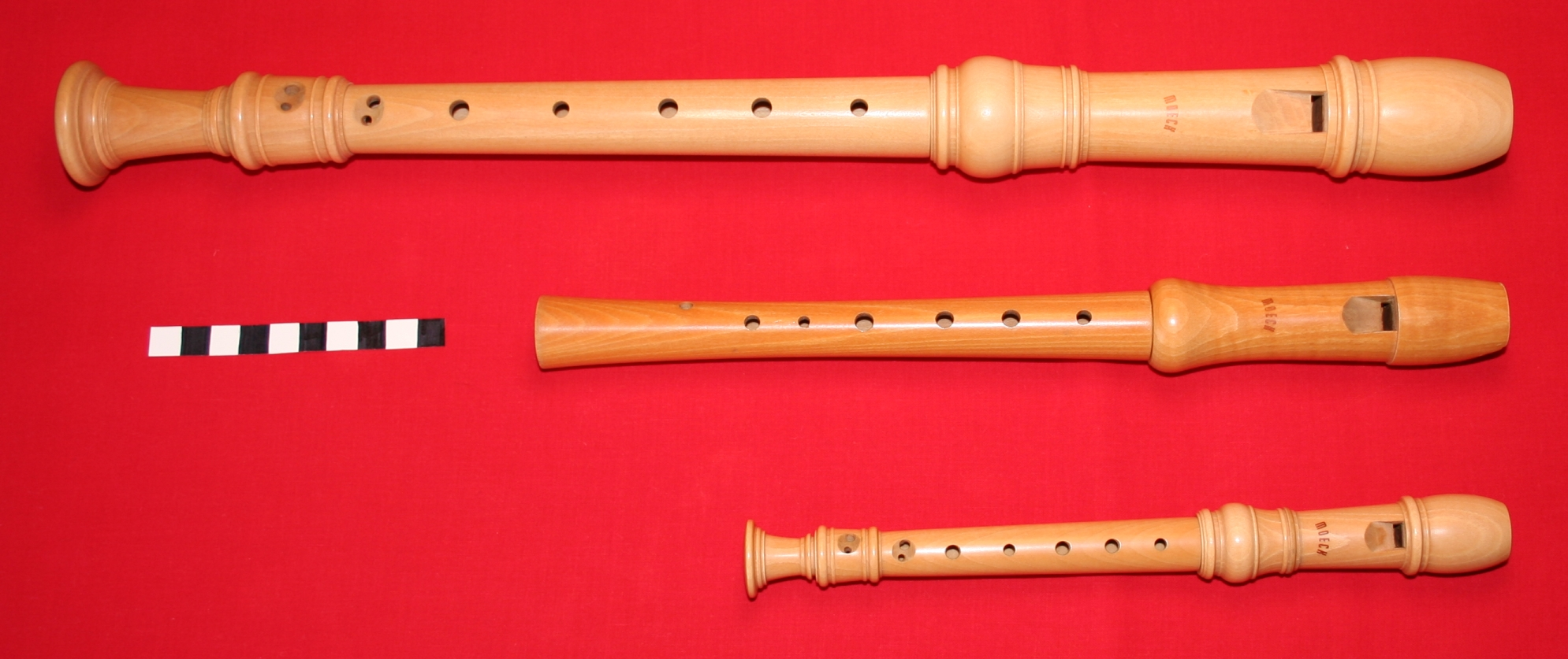 Alt-, Sopran- a Sopraninoblockflütt (vun uewen, Moossstaw = 10 cm).